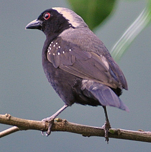 Grey-headed Nigrita (Nigrita canicapilla)